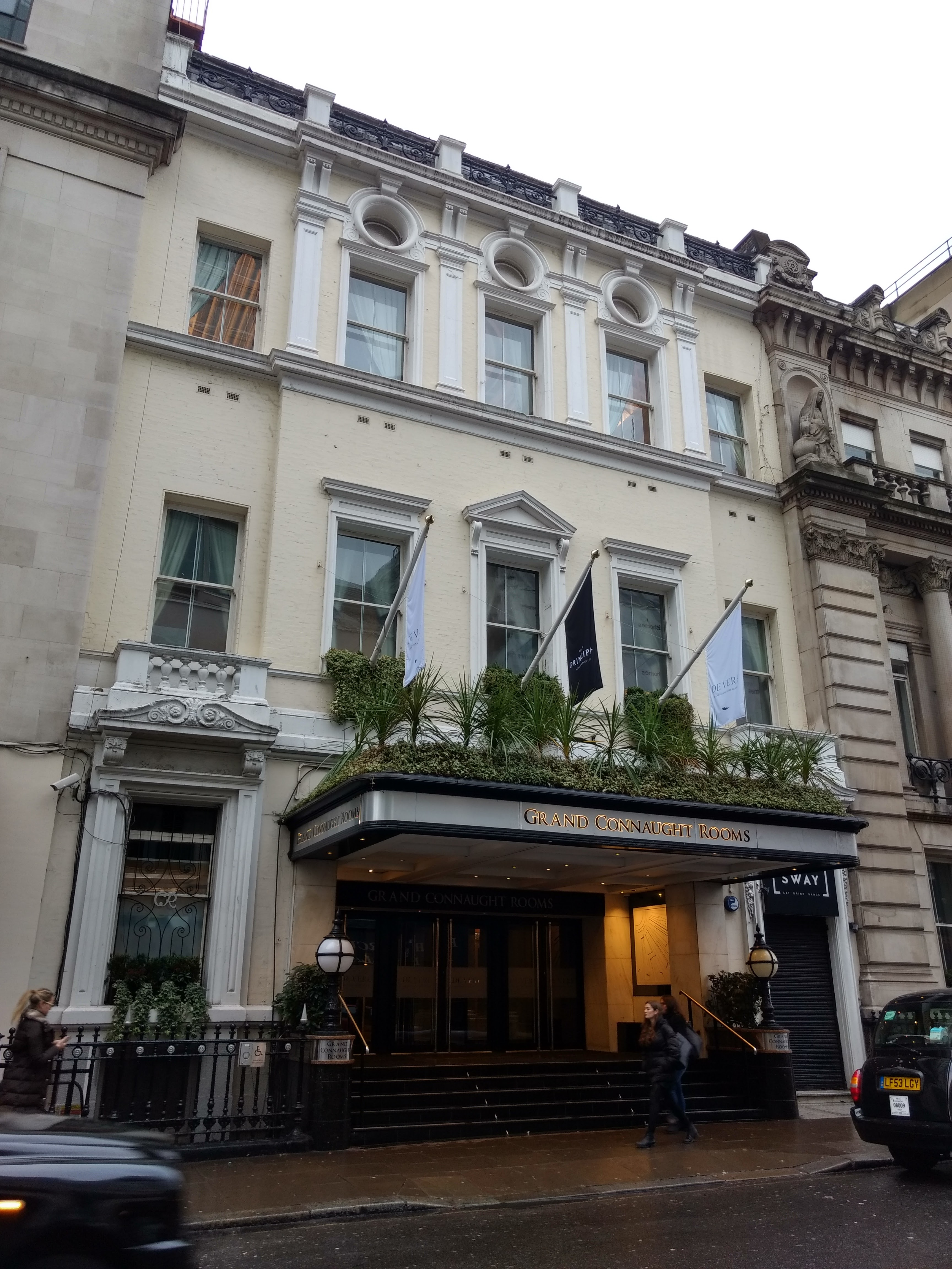 London